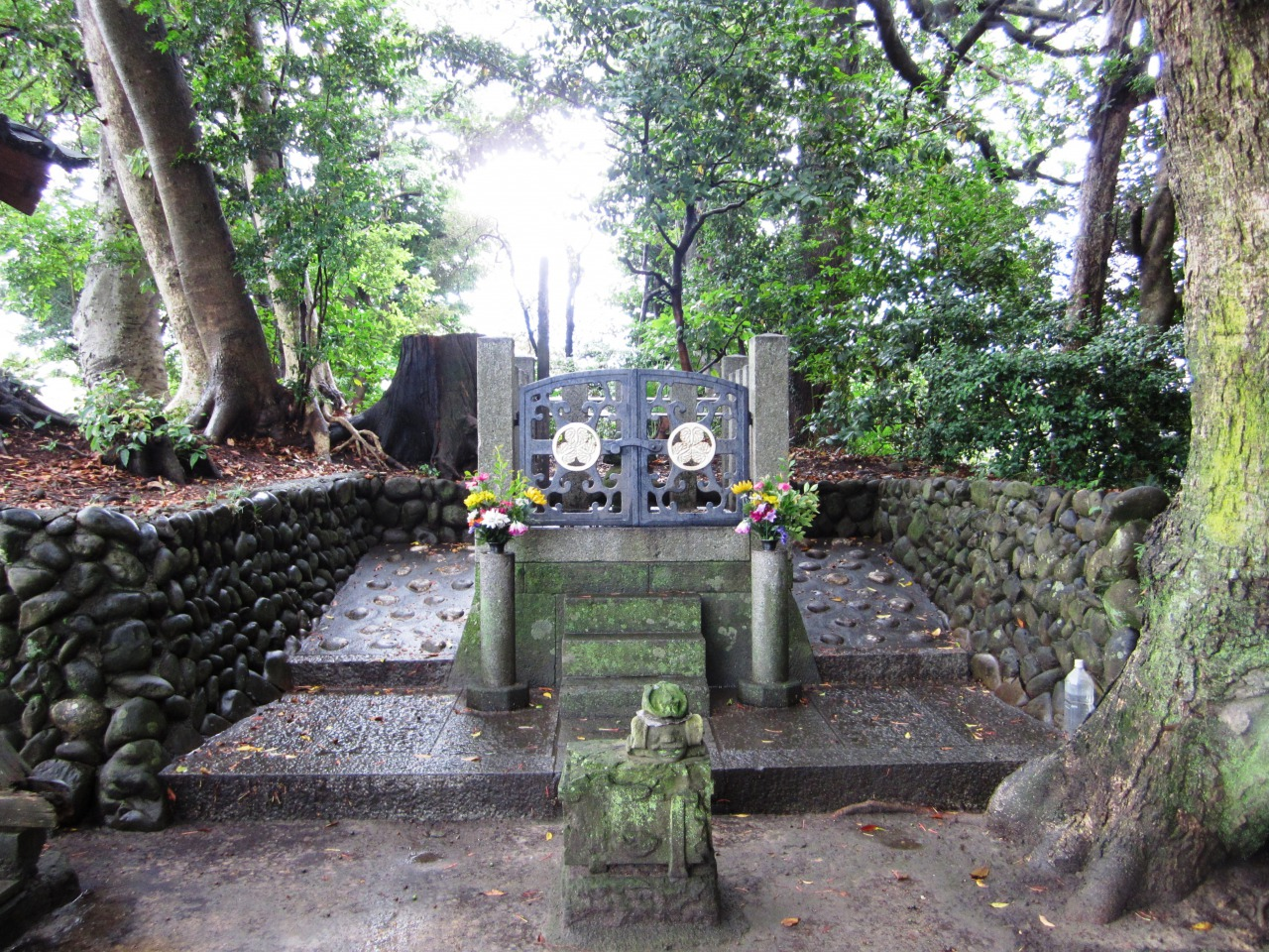 Tōtoumi-zuka in Kakegawa, Hamamatsu.